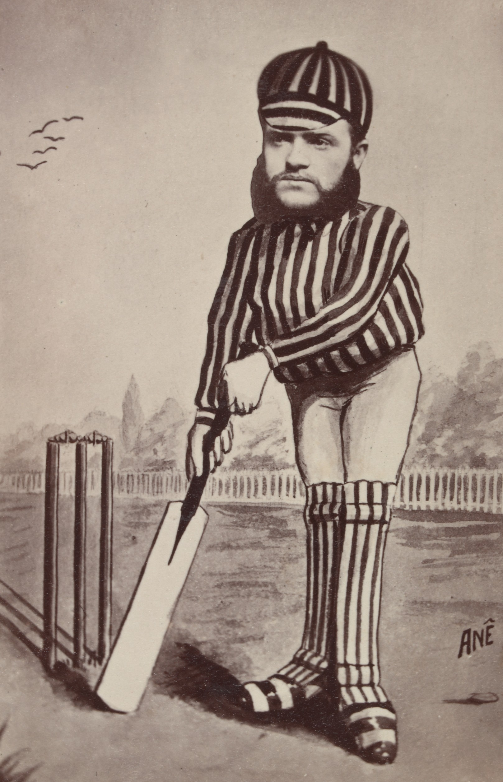 Tom Horan. Part of a collection of twelve caricatures of the members of the first Australian cricket team to tour England in 1878.